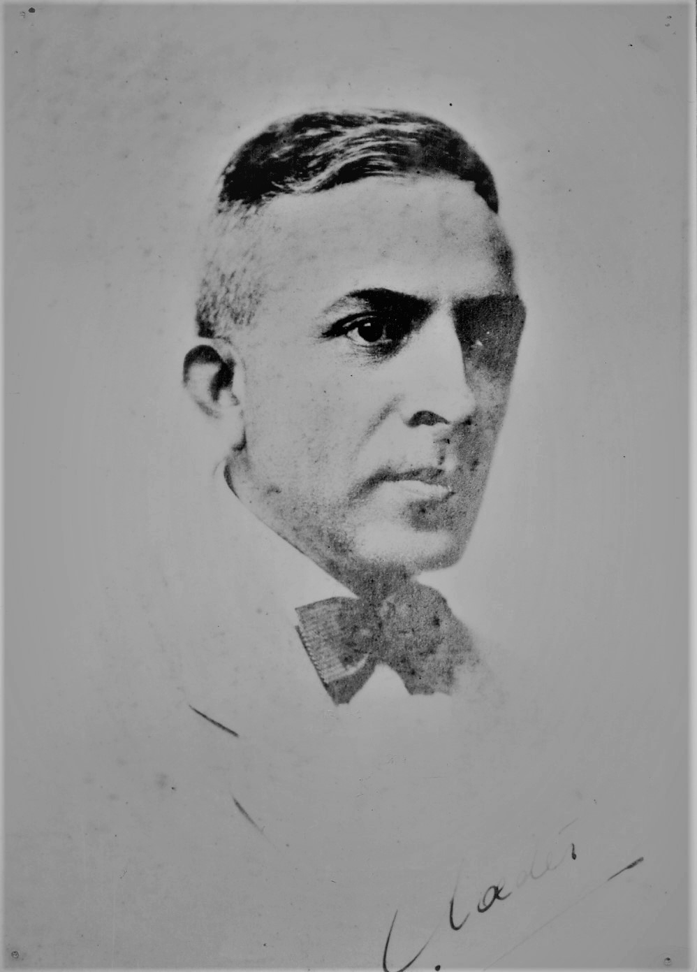 George Coedès, unknown date